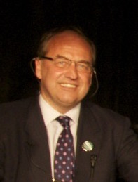 This is a photograph of Dr Andrew J Weaver moments after his victory as a Green MLA in the British Columbia, Canada riding of Oak Bay-Gordon Head was announced in 2013. [Andrew J. Weaver]